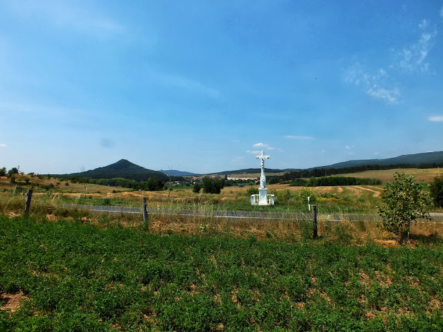 Christ on the road